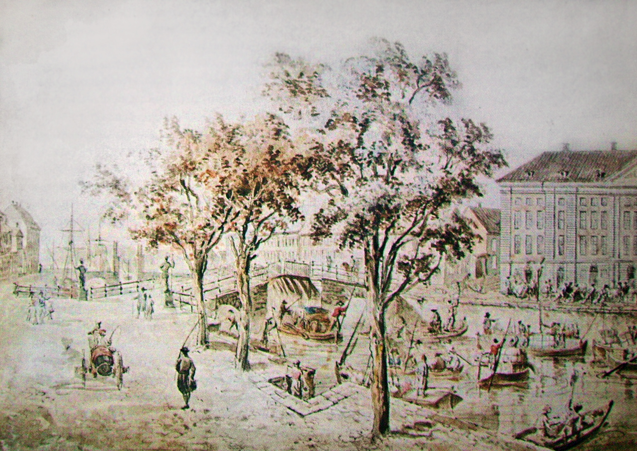 Picture of a painting of canals in Göteborg by Elias Martin 1787